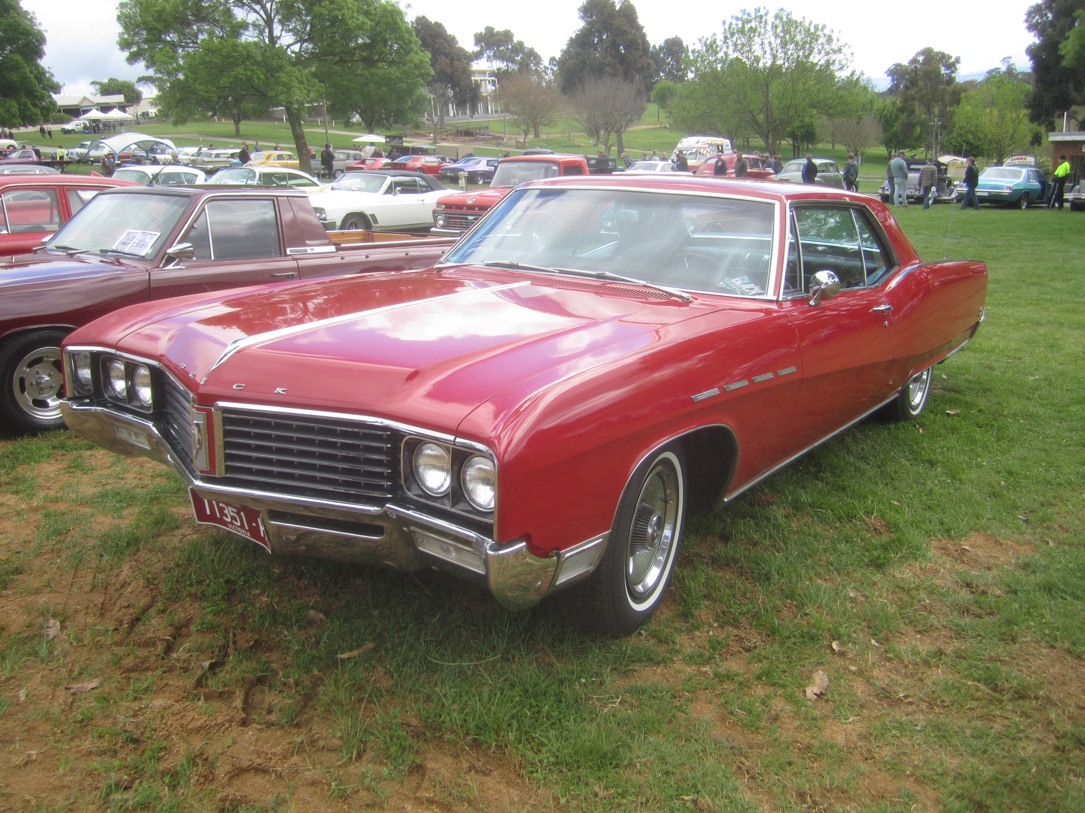 Along with the Lesabre and Invicta, the top of the line Electra and Electra 225 were introduced in 1959, replacing the Roadmaster (the 225s had four hash marks behind the wheelhouse of the rear fender). They were available in 2 or 4 door Hardtops, 4 door Sedan and Convertible. 1967 was the 1st year for the 430 cu in V8 replacing the old 401 and 425 cu in Nailhead V8s.